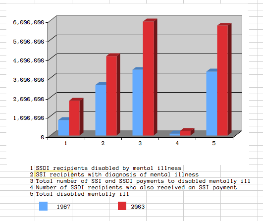 Number of Americans who received U.S. Social Security Disability Insurance and U.S. Supplemental Security Income for mental disabilties, 1987 to 2003